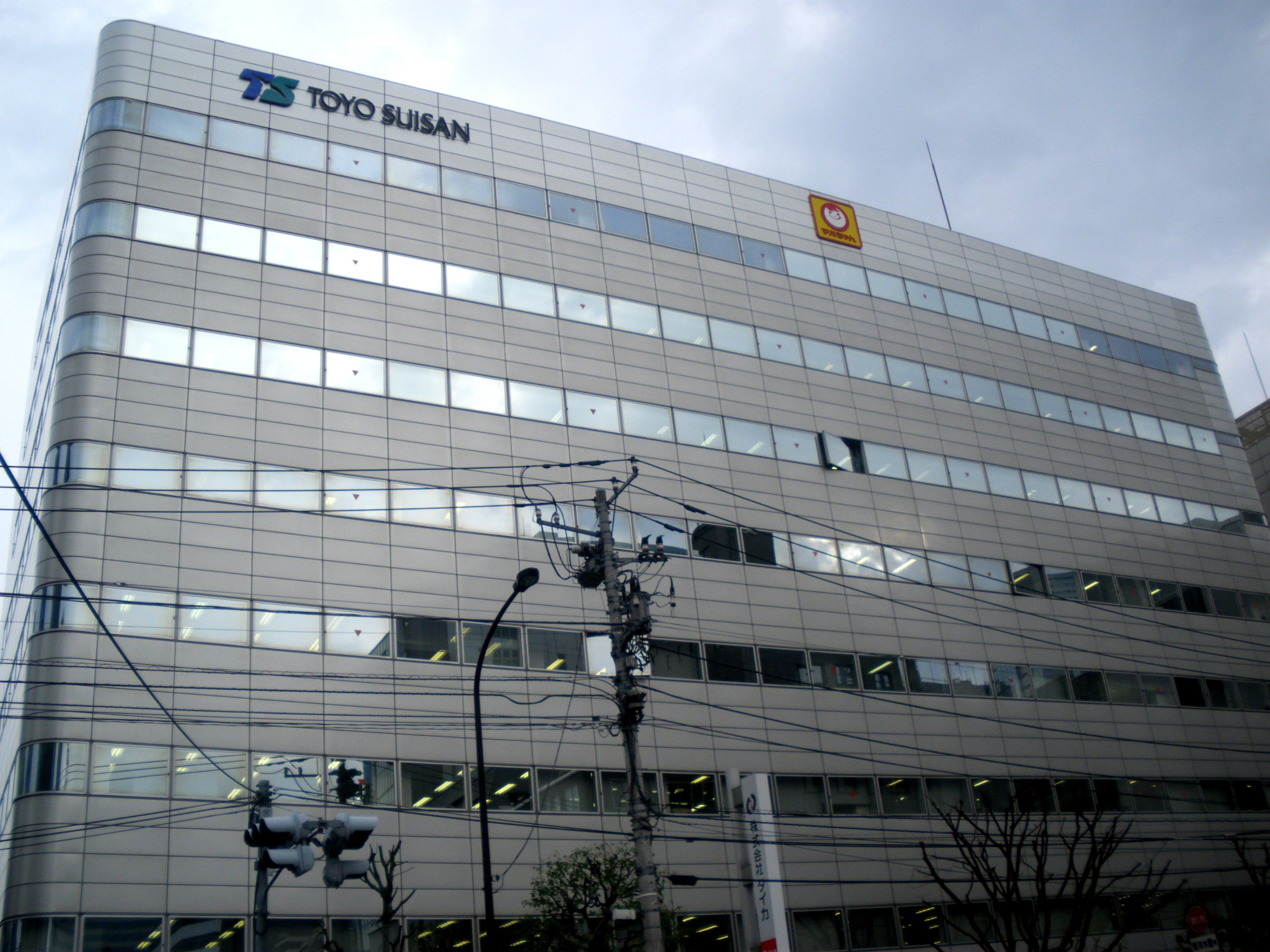 Toyo Suisan head office (Konan, Minato, Tokyo)